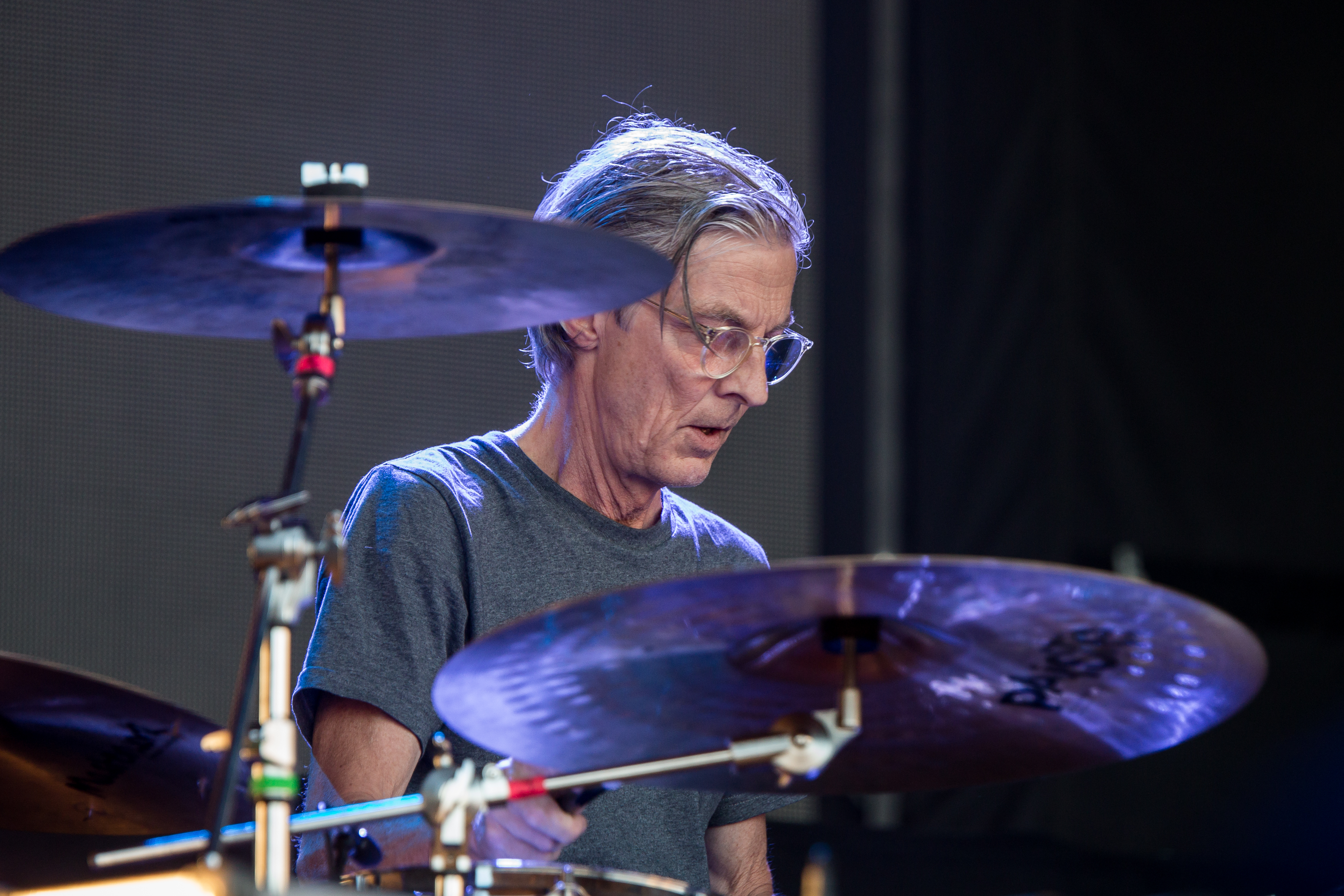 Richard Pappik, Element of Crime, Folklore 015| festival at theSchlachthof in Wiesbaden